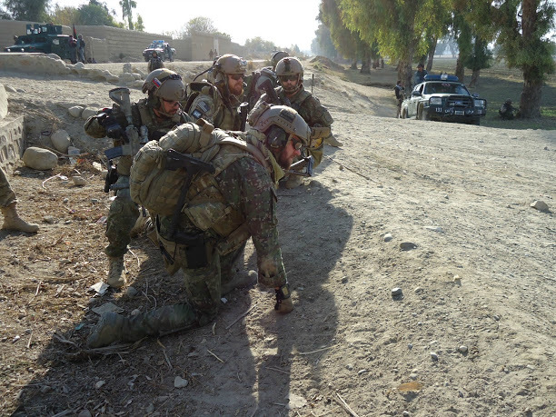 Slovak special operations forces are seen operating in eastern Afghanistan.